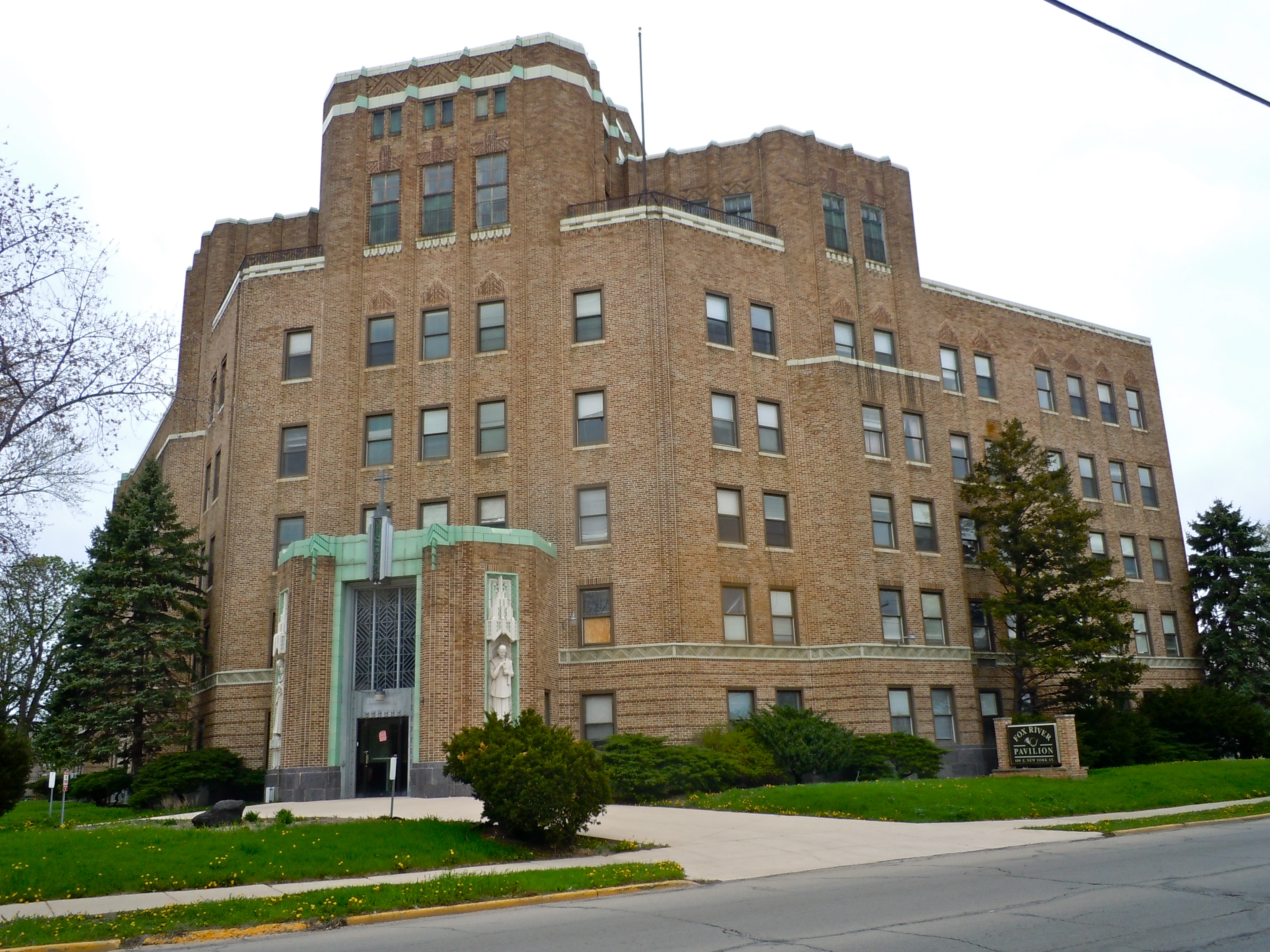 St. Charles Hospital on the NRHP since June 7, 2010 . At 400 E New York St., Aurora, Kane County, Illinois. Currently vacant.